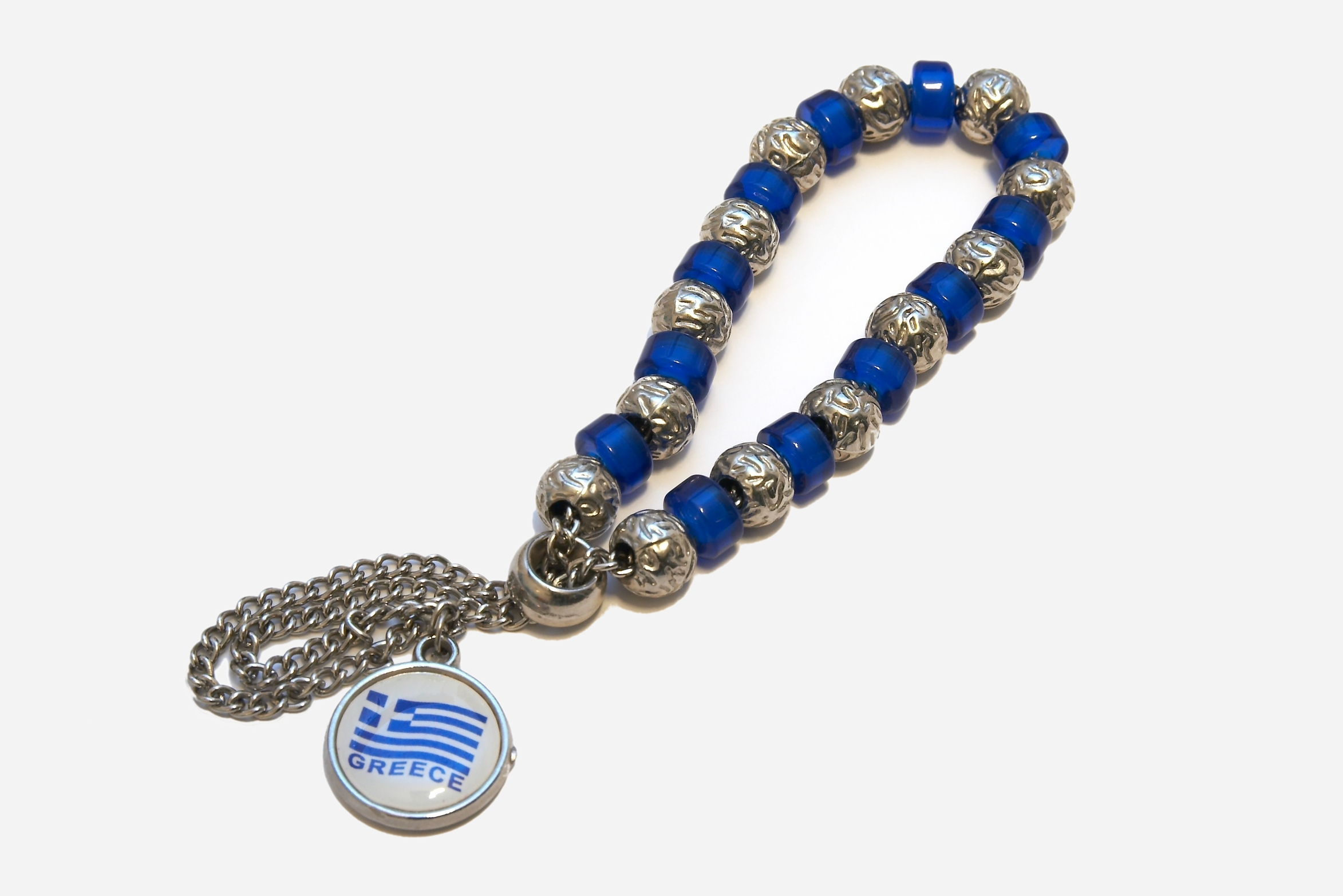 Komboloi, a Greek fidget toy, used to relieve stress and generally pass the time.